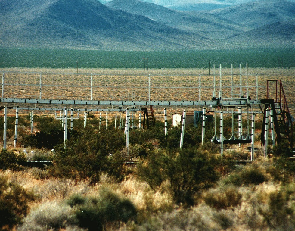 Nevada Test Site - Area 5 Nevada Desert Free Air Carbon Dioxide Enrichment Facility. Original caption: FACE (Free Air Carbon Dioxide Enrichment) Facility. This state-of-the-art facility uses FACE technology developed by scientists to create 21ST- century atmospheric conditions in an otherwise natural environment 24 hours a day, 365 days a year.